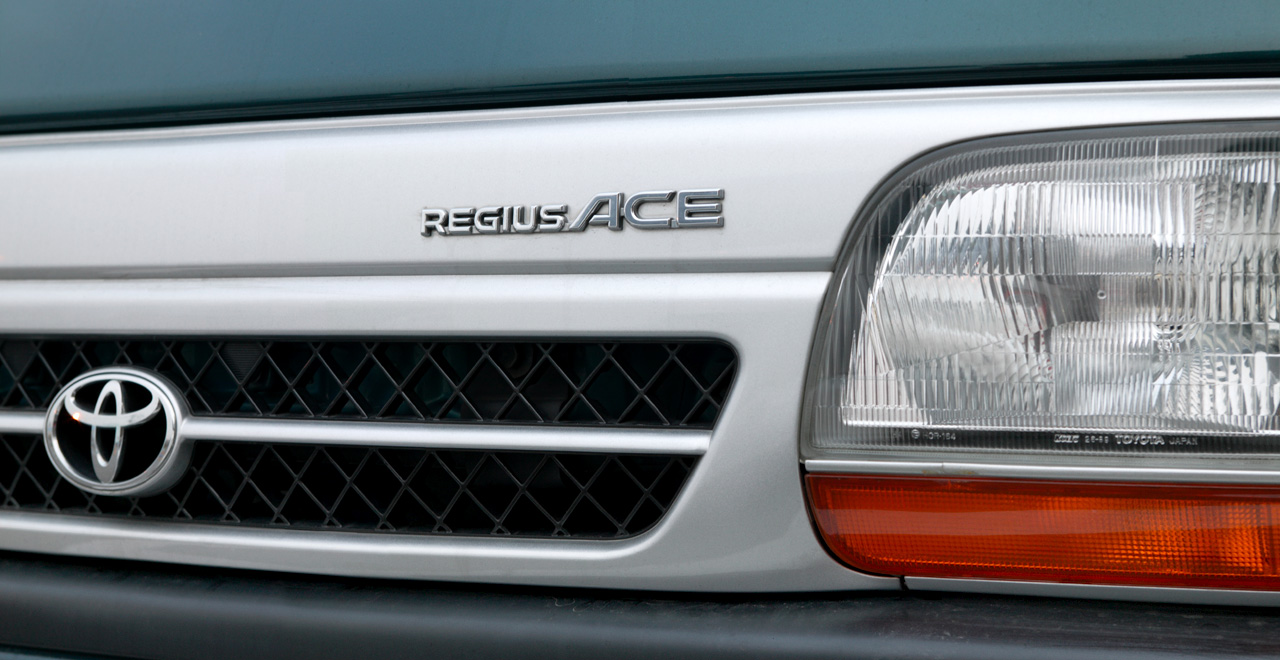 Toyota Regiusace H100